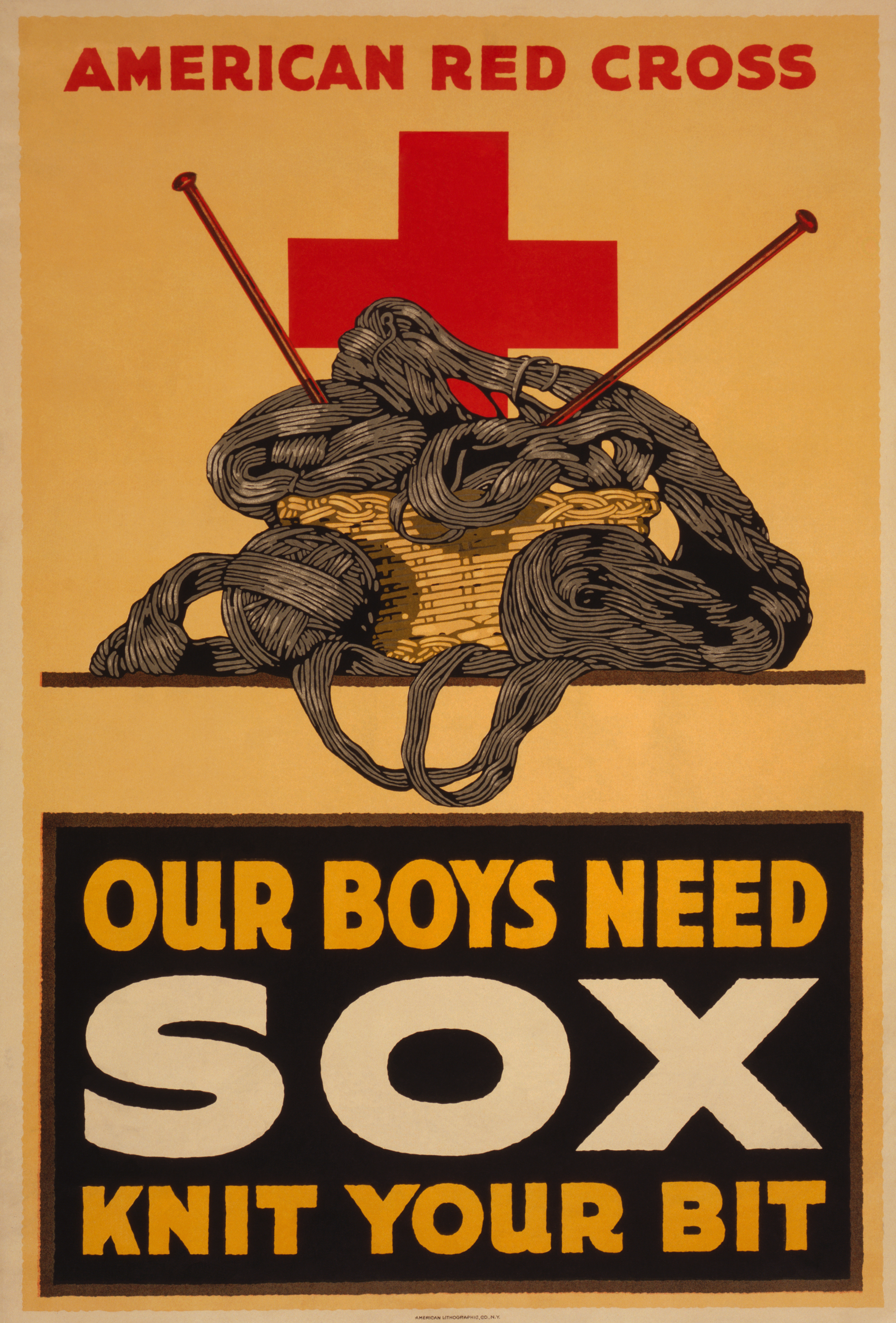 U.S. World War I poster: "Our boys need sox - knit your bit / American Red Cross" ("Sox" was the Chicago Tribune / Teddy Roosevelt spelling.)